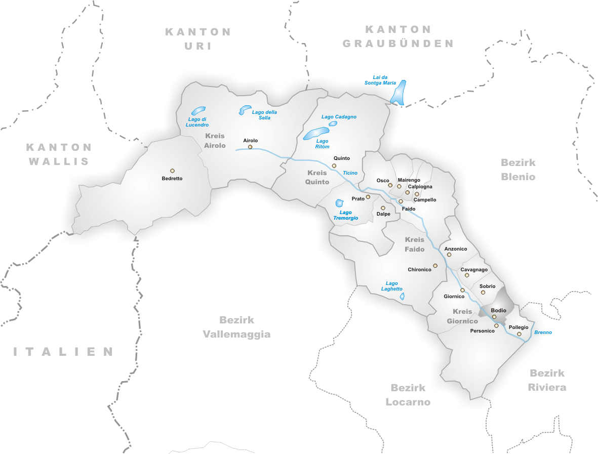 Municipality Bodio